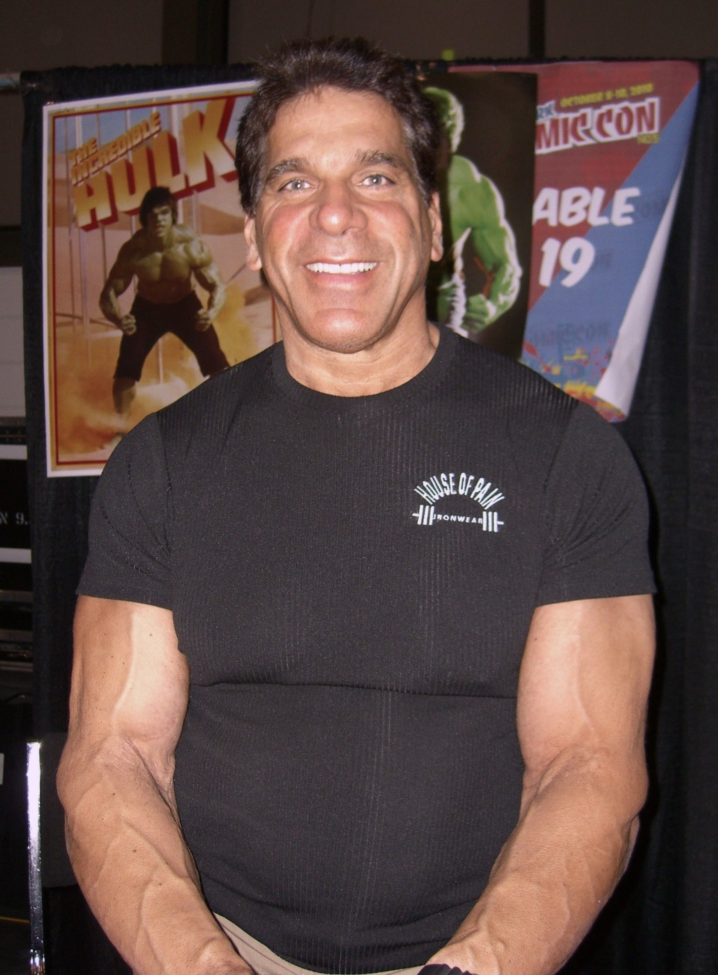 Actor and bodybuilder Lou Ferrigno at the New York Comic Convention in Manhattan, October 10, 2010. Photo by Luigi Novi. This photo may be used, modified and published for any purpose, only if the photographer is visibly credited in each instance in which it is used. (See licensing information below.) Publication of this photo without proper attribution constitute copyright infringement. For more information on my photos, you can contact me here.